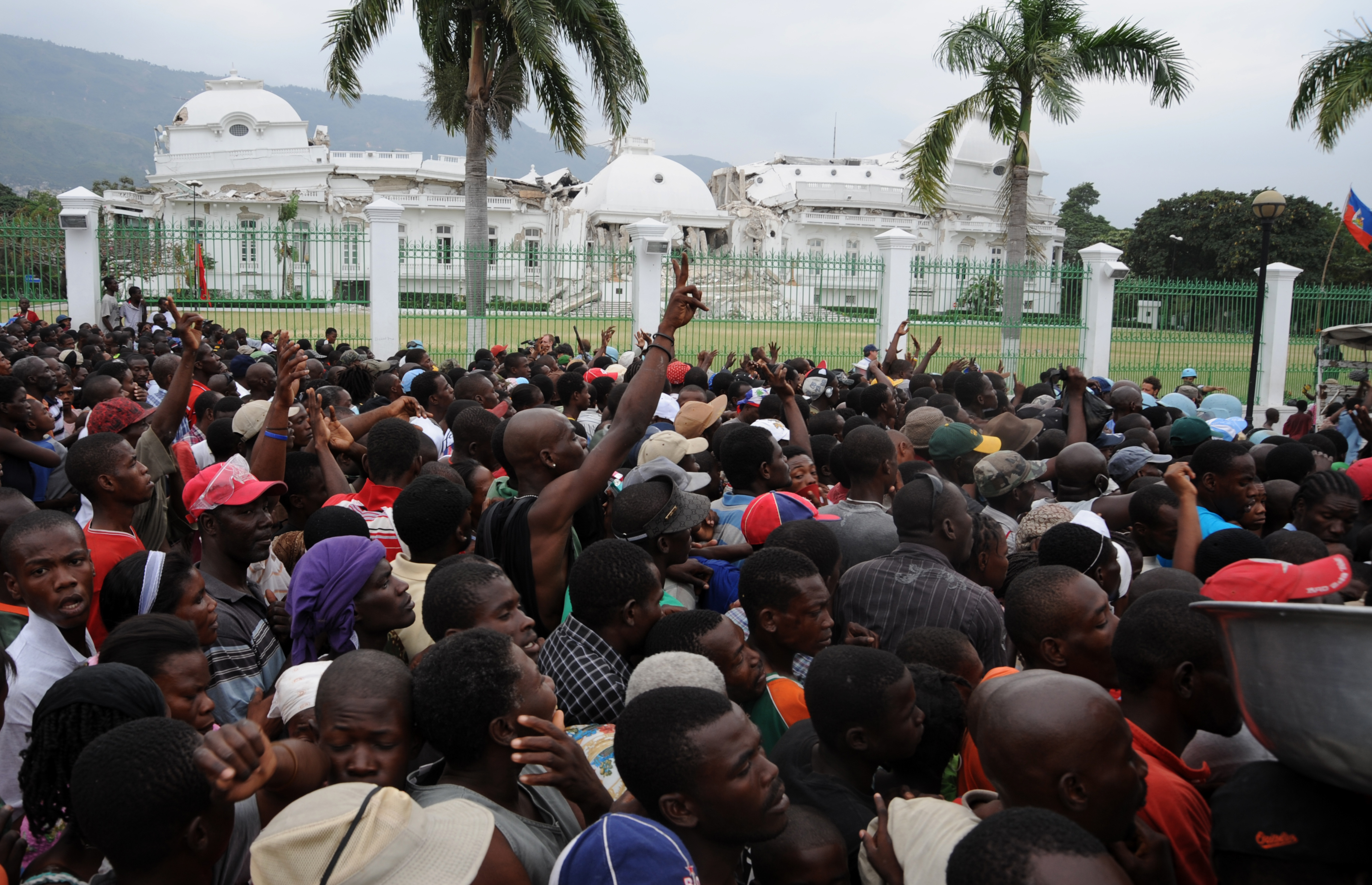 A crowd of Haitians gathers for food distribution in front of the Presidential Palace in Port-au-Prince, Haiti. VIRIN: 100125-F-7951C-420